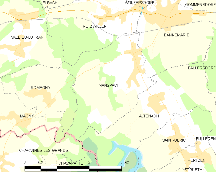 Map of French municipality